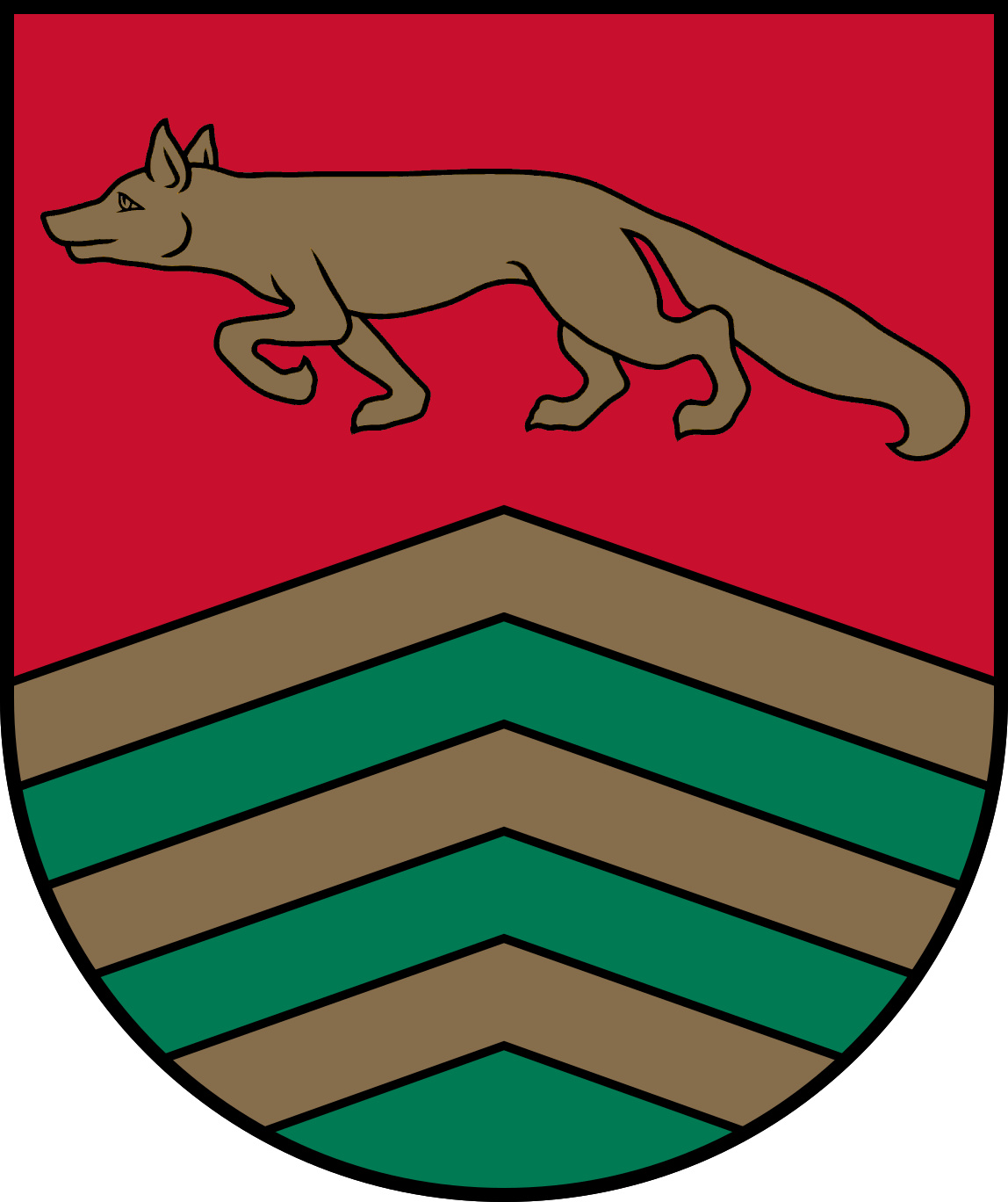 Coat of arms of Varakļāni Municipality